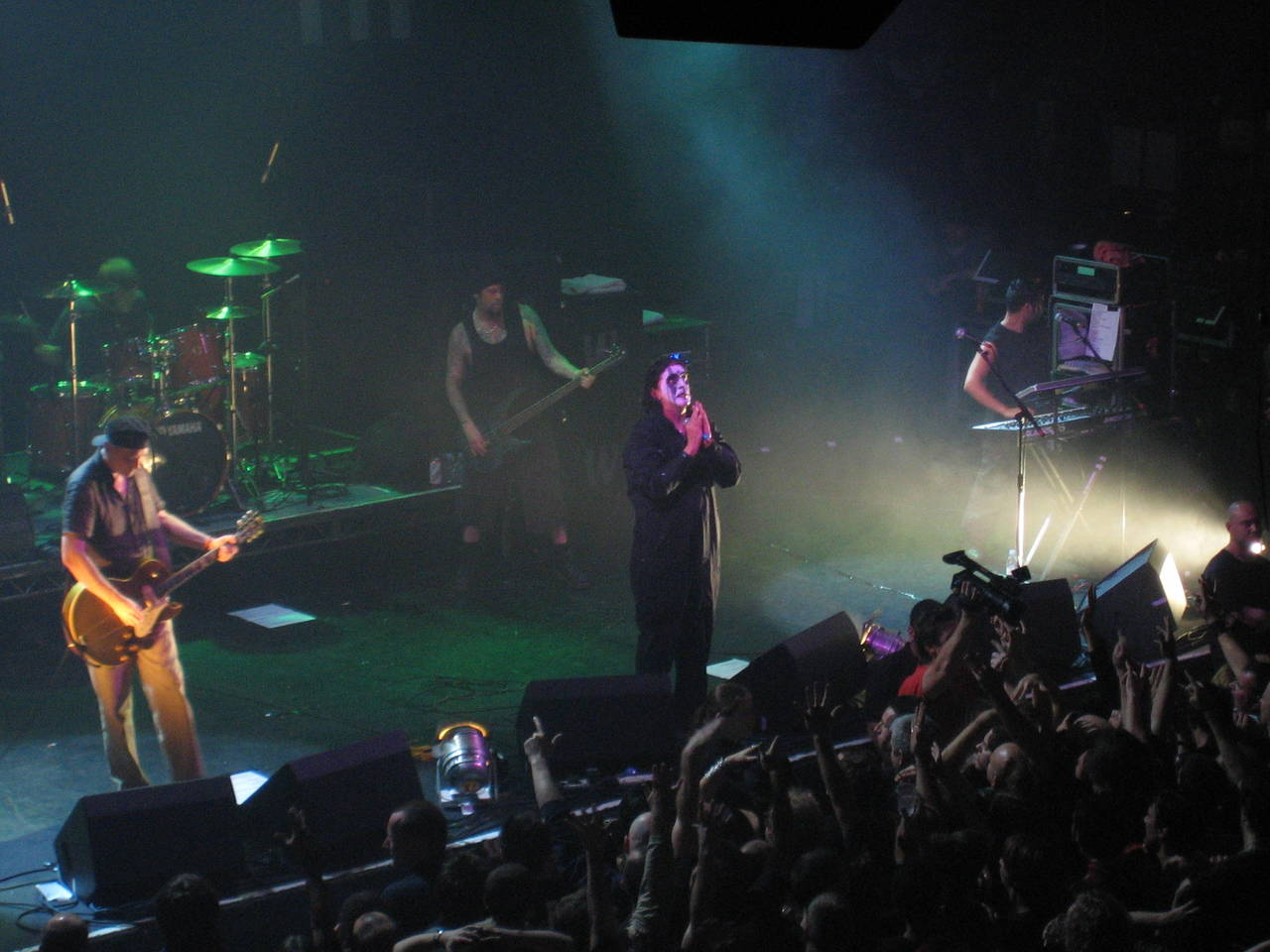 British band Killing Joke 2005